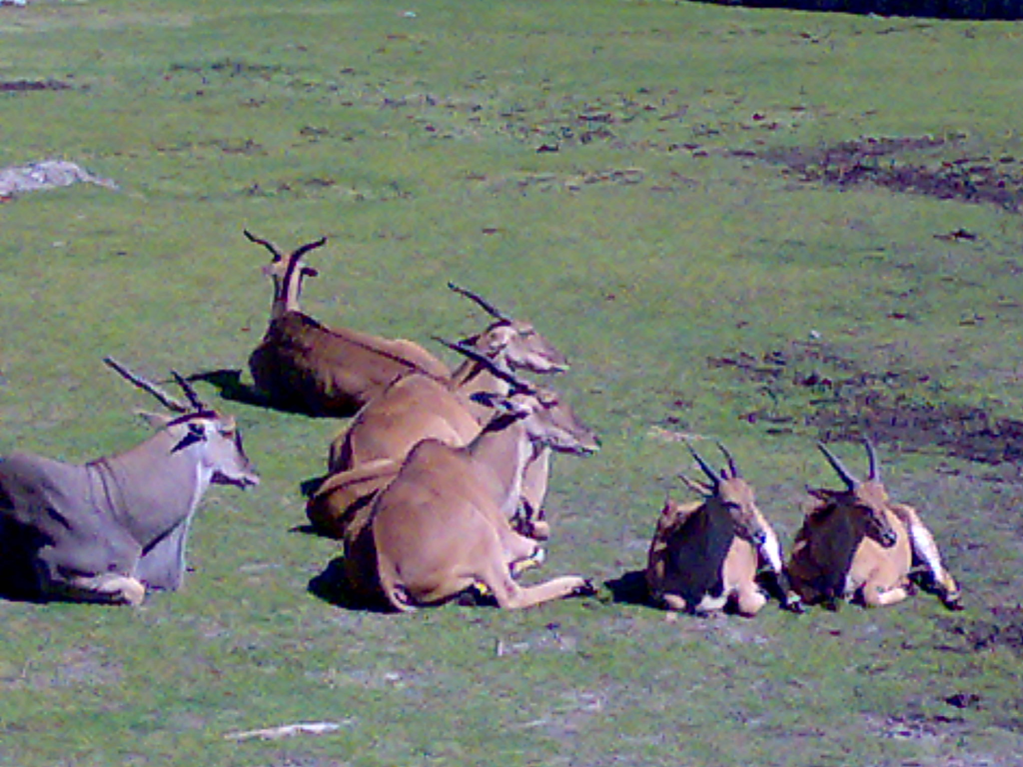 Elands in Kristiansand Zoo Norway